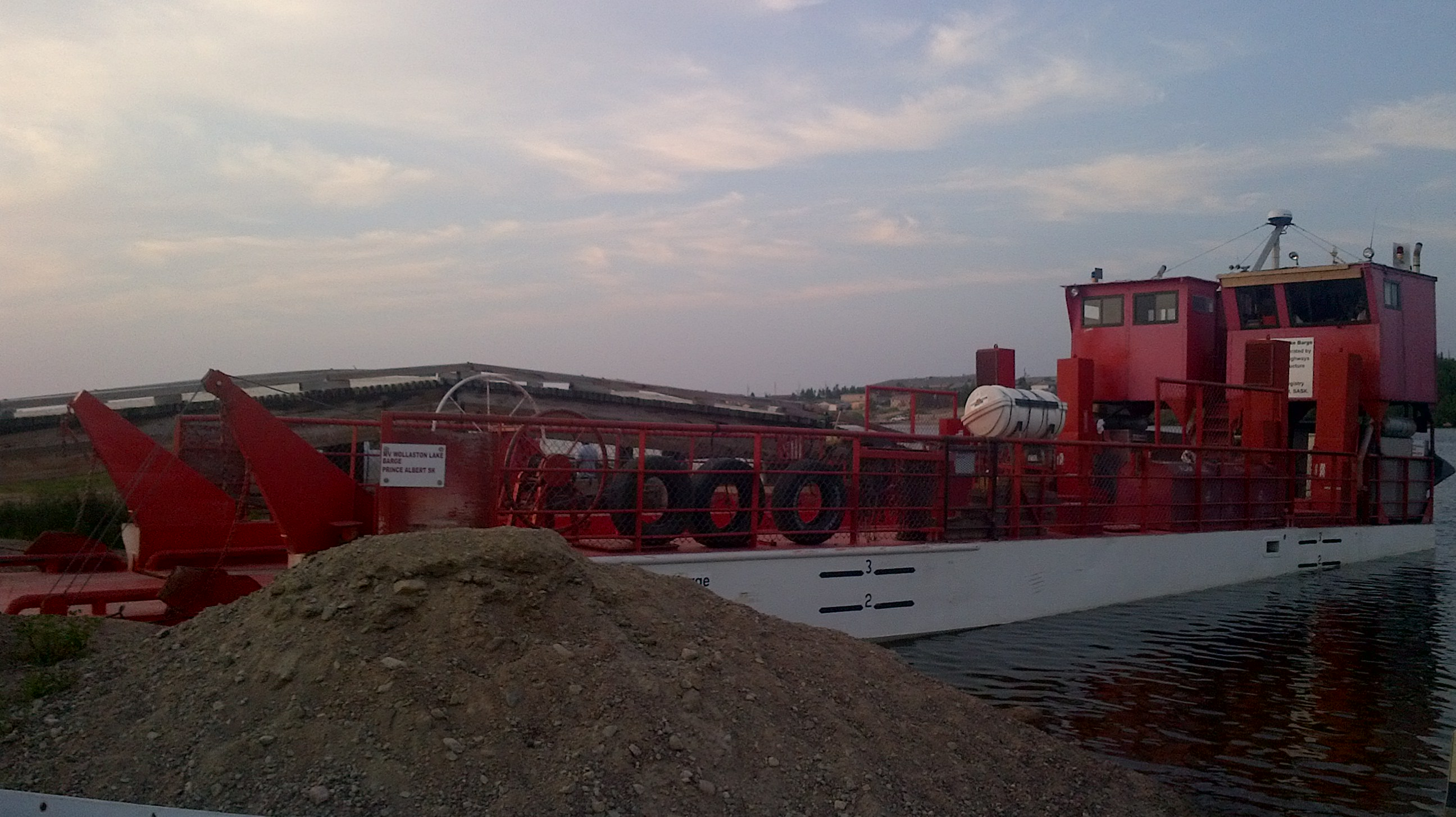 Side view of the Wollaston Lake Barge docked at Barge Landing in Wollaston Lake, SK.